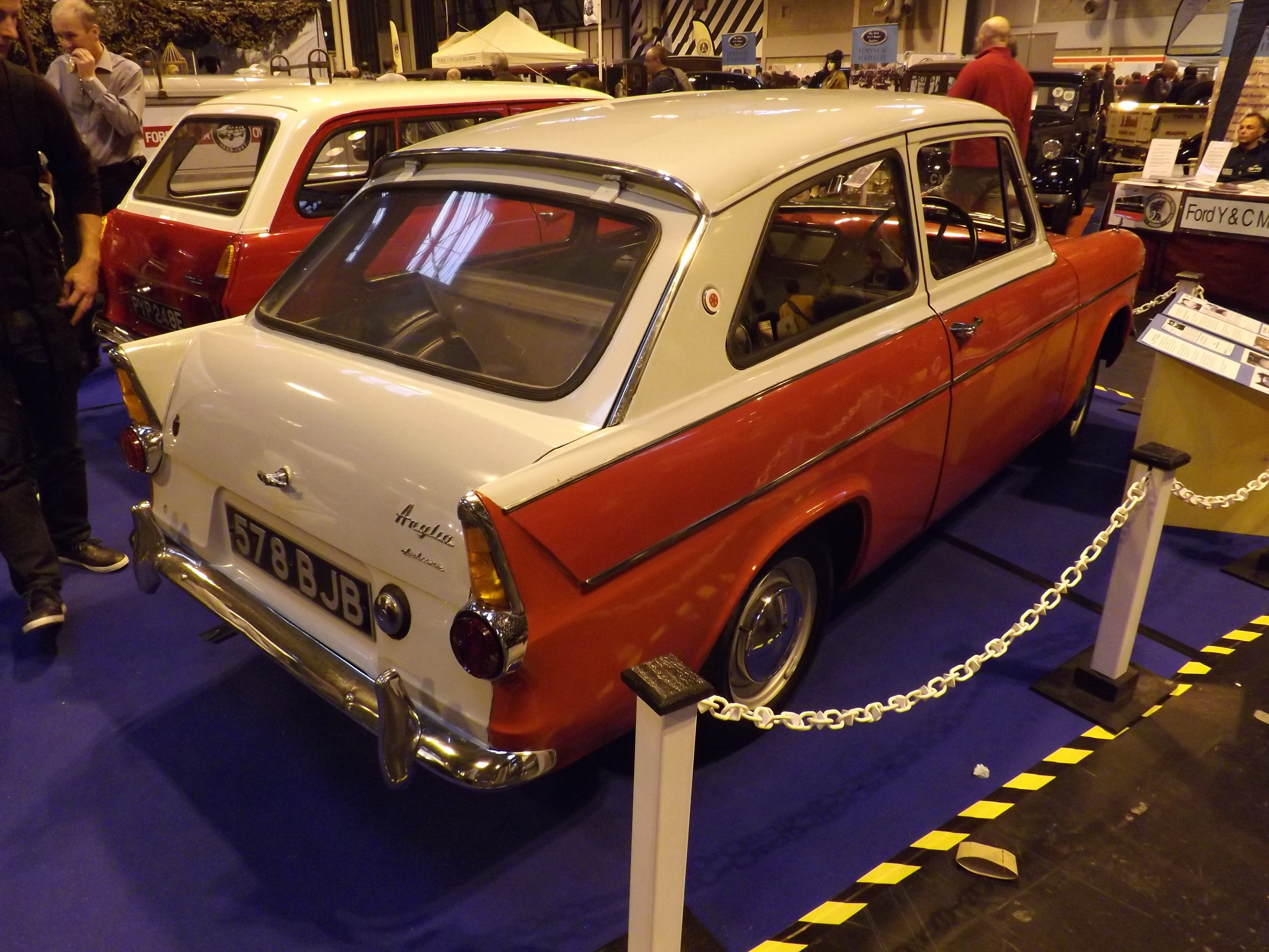 by Friary Motors of Basingstoke